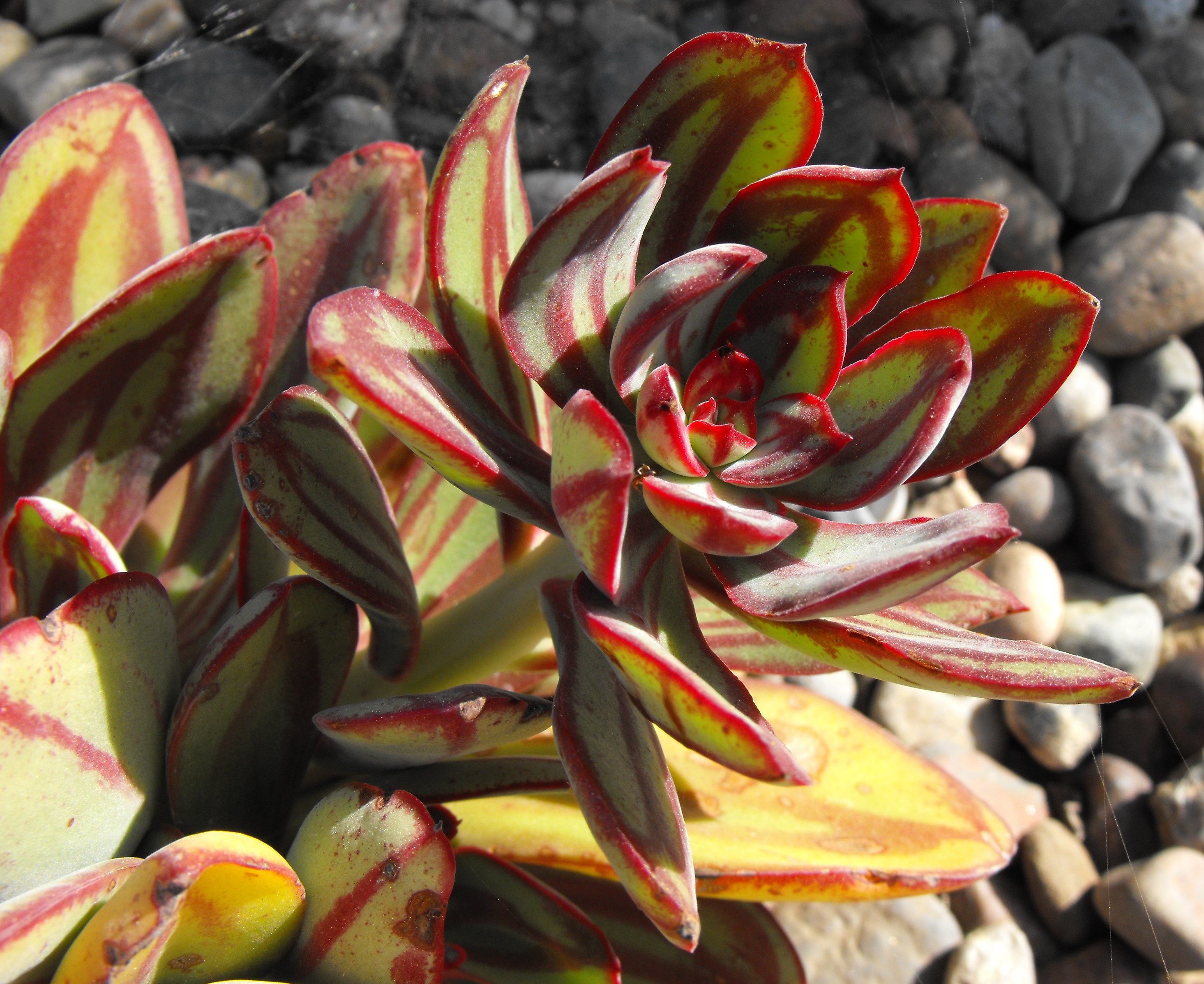 Echeveria nodulosa in the Water Conservation Garden at Cuyamaca College, El Cajon, California, USA. Identified by sign.